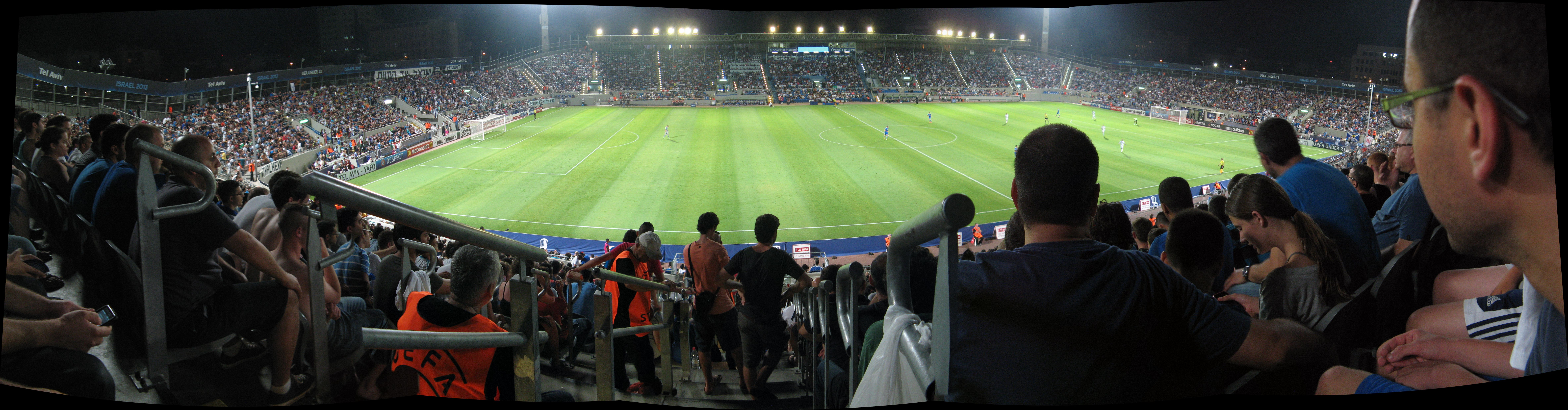 Bloomfield stadium in Tel Aviv-Yafo. A view from gate 8 during the match between Israel and Italy in the 2013 UEFA European Under-21 Football Championship